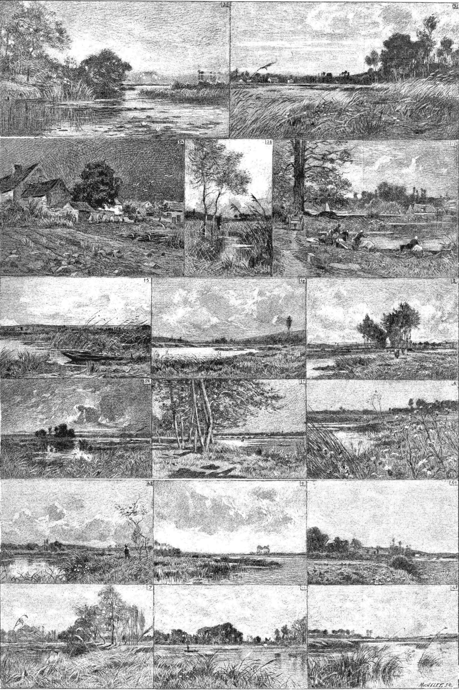 Edmond Yon - Table of his pictures, exhibition 1891